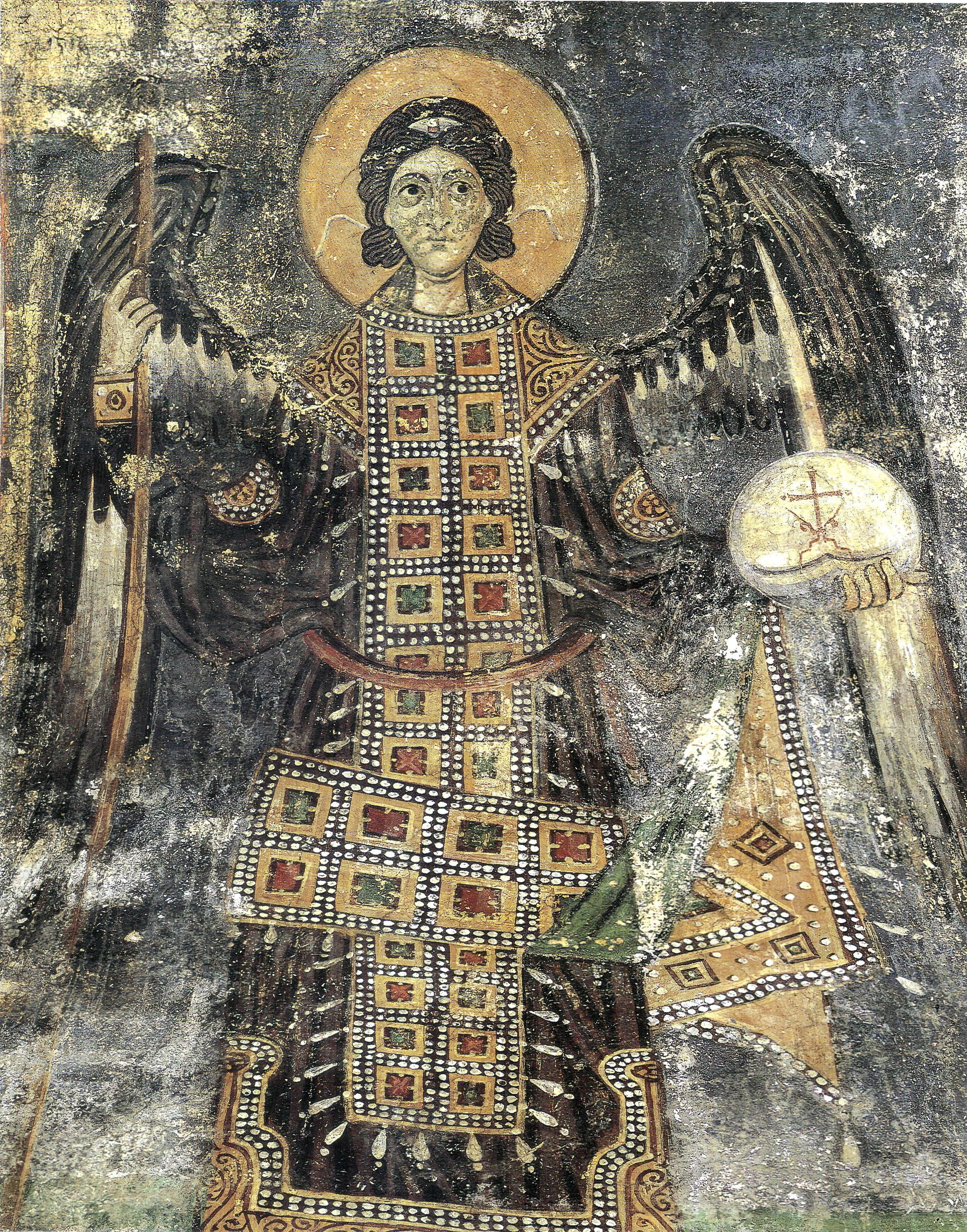 Hosios Loukas Monastery, Boeotia, Greece